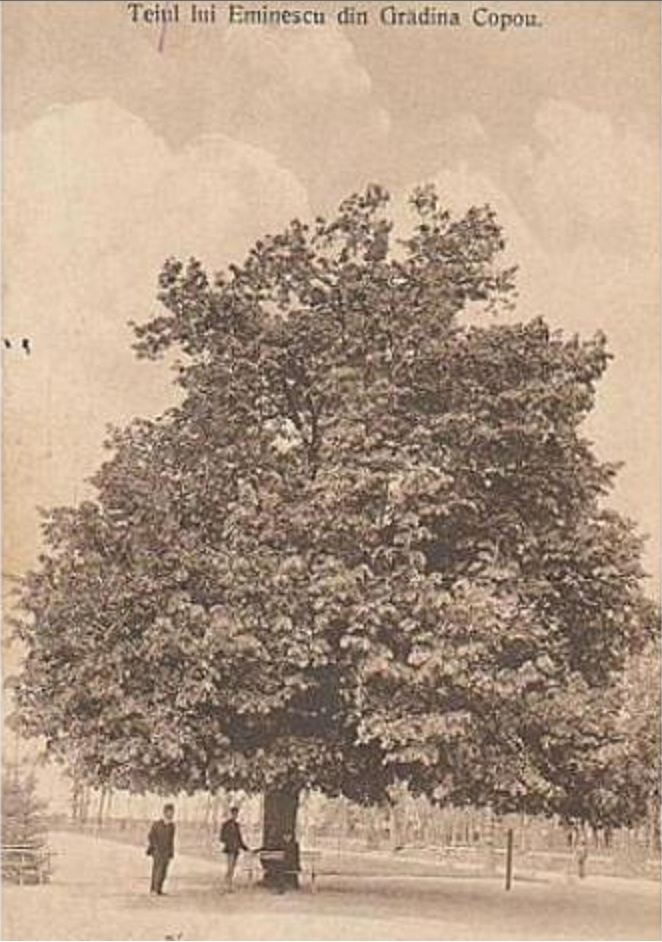 Eminescu's Linden Tree (arhival image)